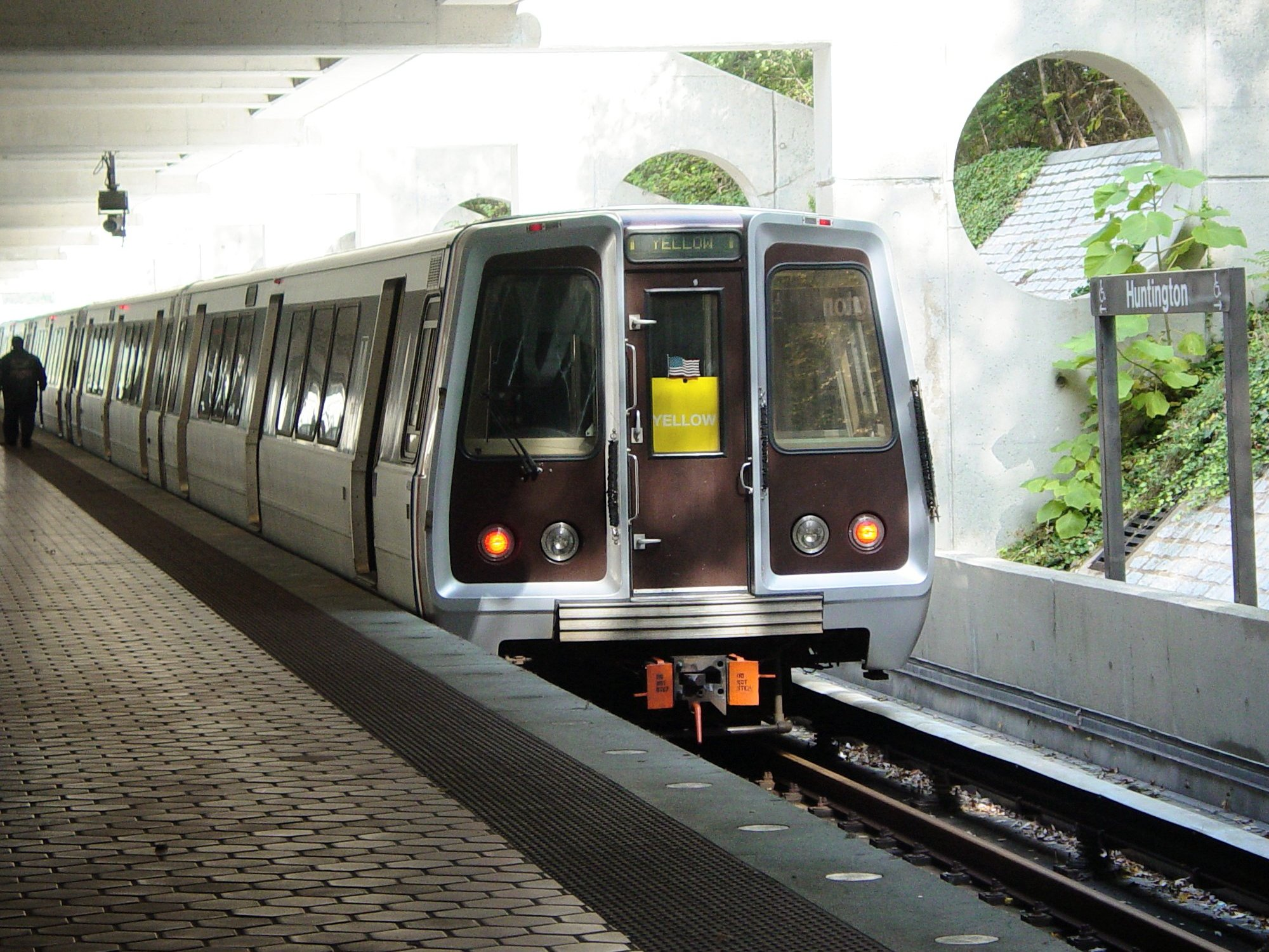 A Breda 4000-series train waits at the Huntington Metro station in Fairfax County, Virginia.